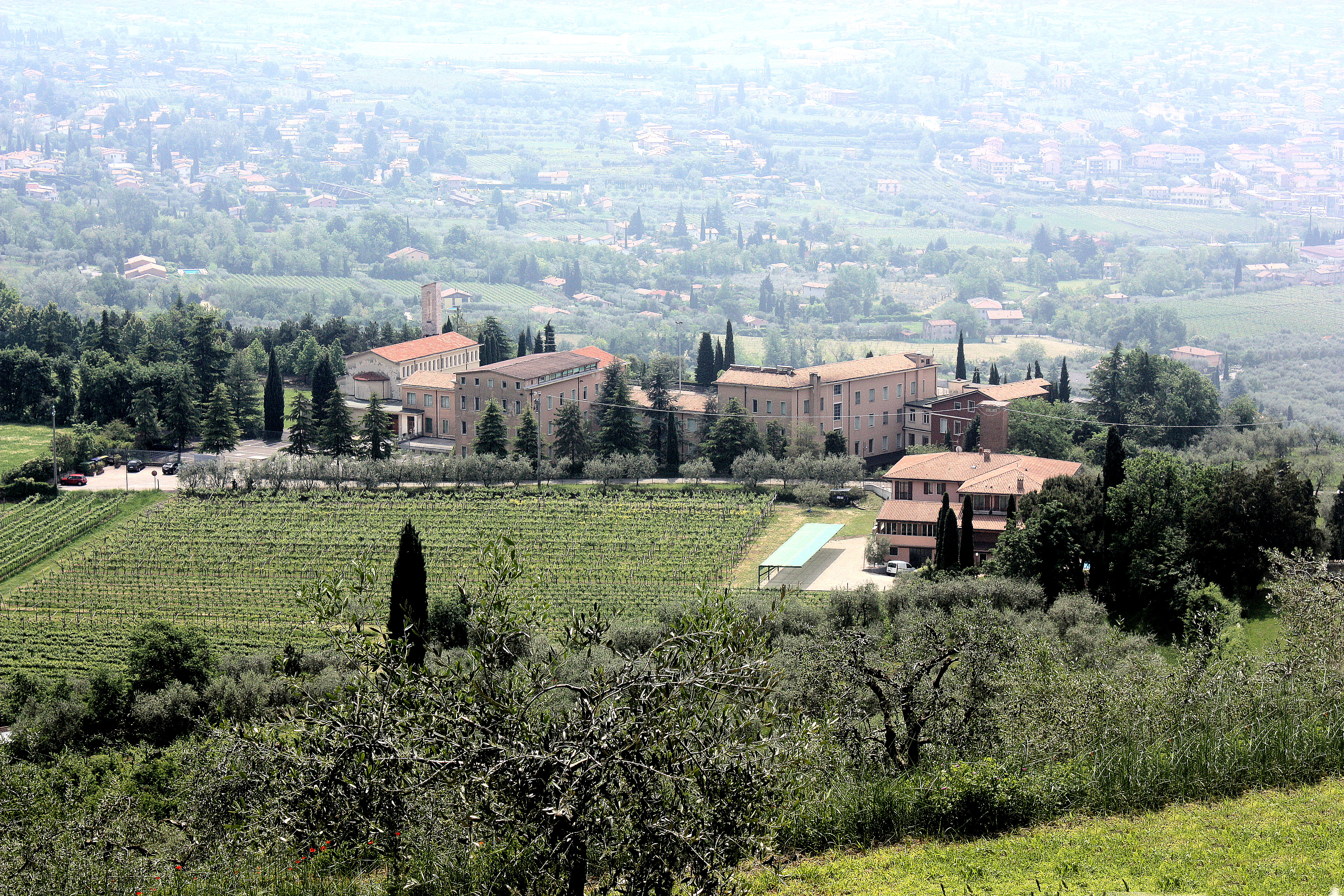 View from abbey San Georgio to the agrotourism "La Rocca"